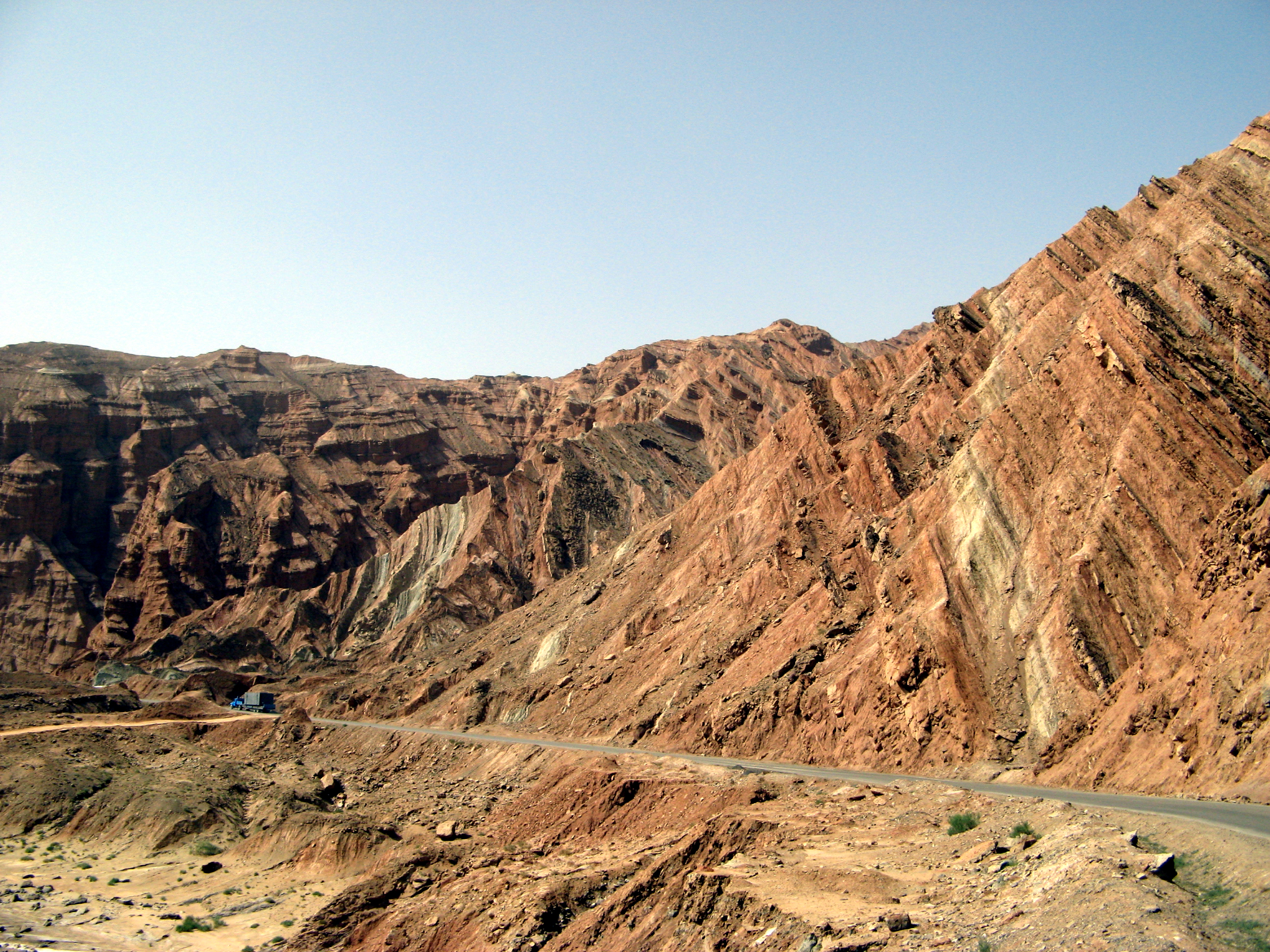 Tianshan Mountain landscape. Located between Kuqa and Kizil, in Xinjiang. This is a new road, currently (2007) being cut between Kuqa and Kizil. The outcrop to the right provides a real-world example of the "axe-cut texture stroke" used in Chinese painting.